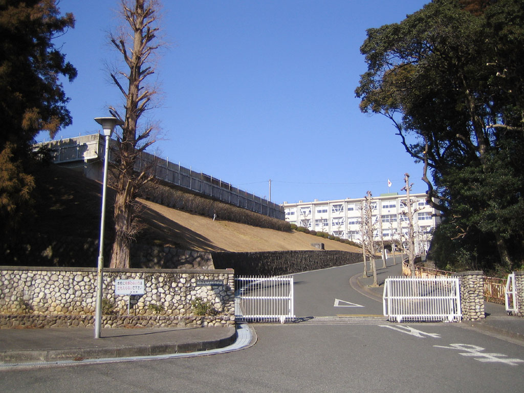 Horyo High School (宝陵高等学校), in Aichi, Japan